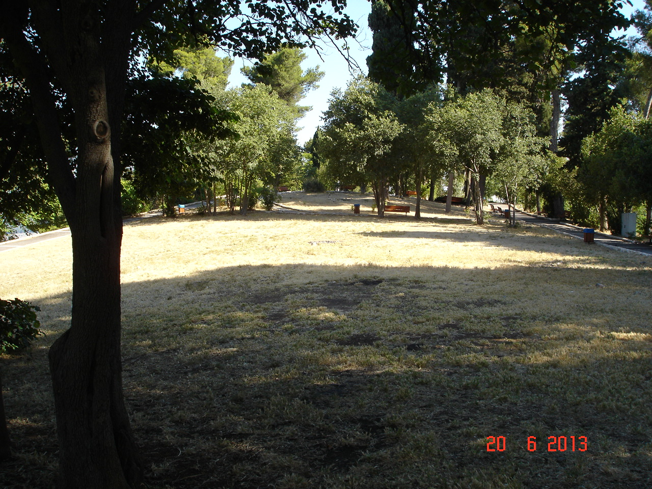 Safed Garden